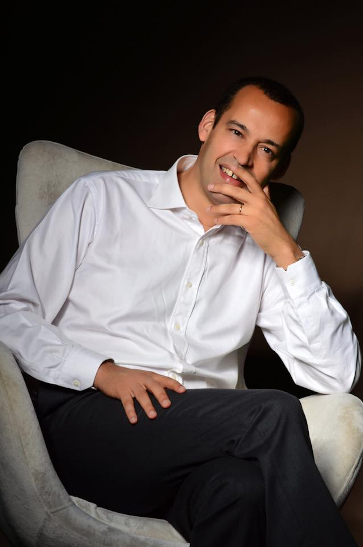 Yassine